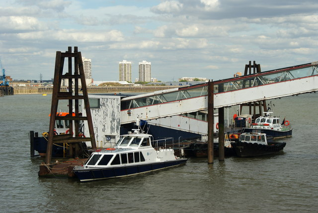 Pier Near the Thames Barrier Visitor Centre Various craft moored up; Environmental Agency, Harbour Master etc.